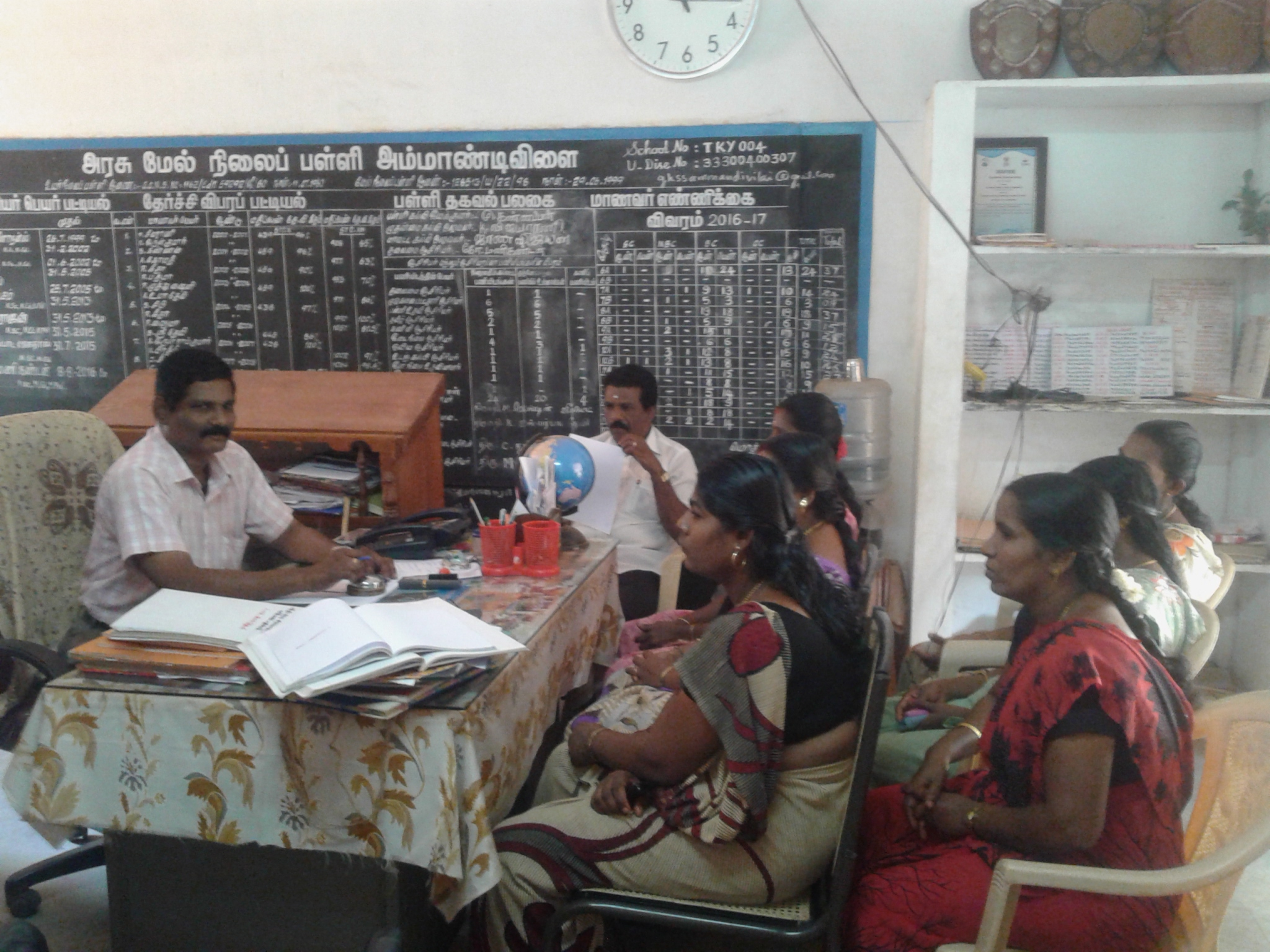 smc meeting